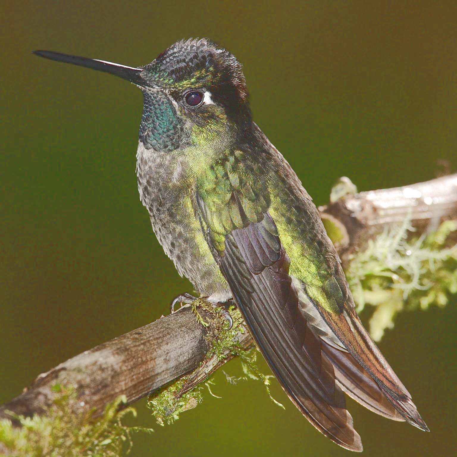 Eugenes fulgens, Magnificent Hummingbird, Guadalupe, Panama, 2006 December